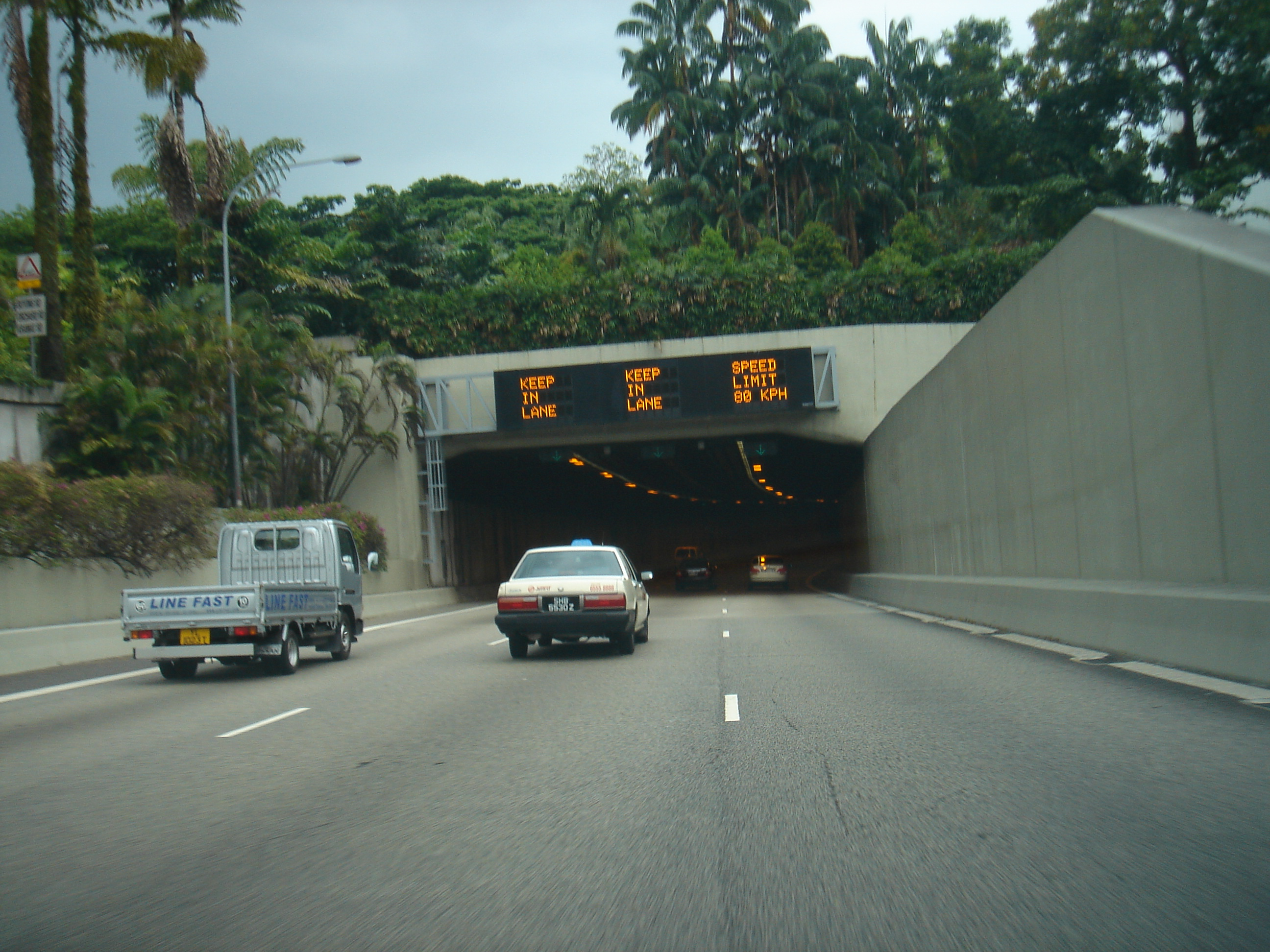 Chin Swee Tunnel entrance towards AYE, Central Expressway, Singapore.